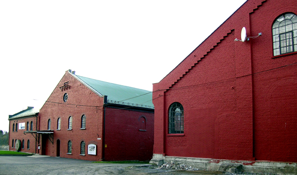 Funnefoss tresliperi, Nes, Akershus, Norway.